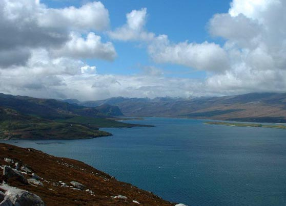 View down Loch Eriboll. View from top of the hill.